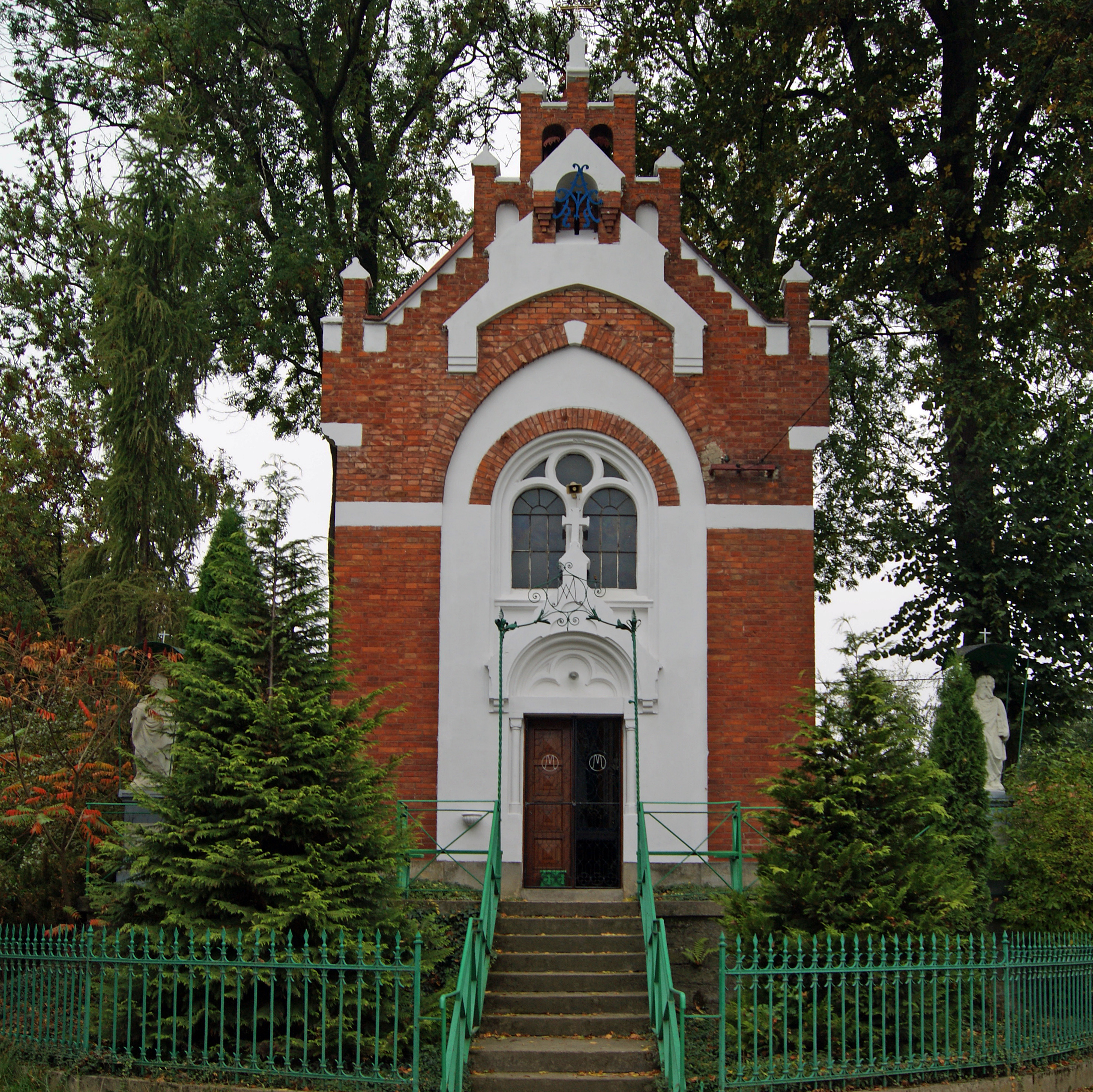 Chapel of Our Lady of Loreto, Loretanska street, City of Wojnicz, Tarnów County, Lesser Poland Voivodeship, Poland